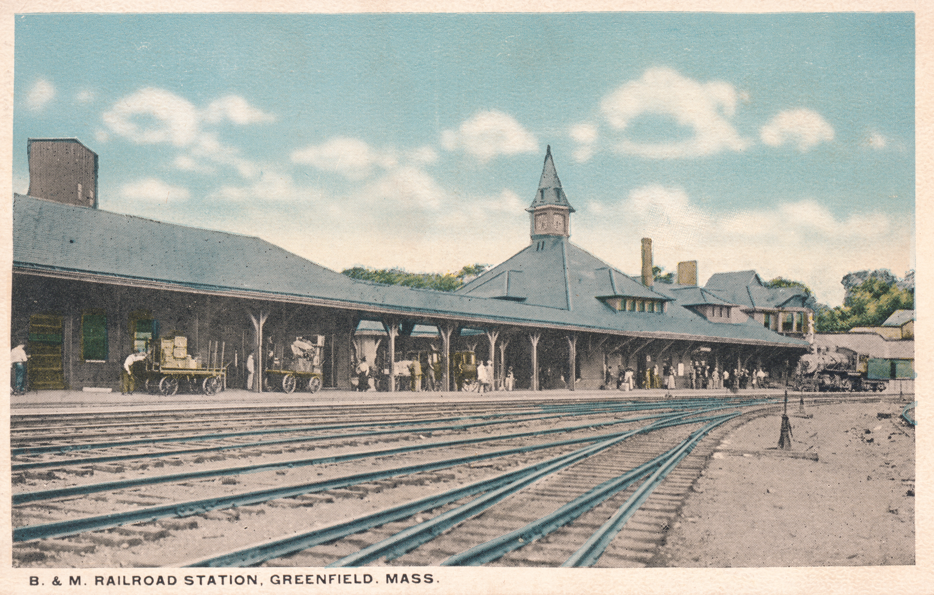 An early postcard showing the former Boston and Maine Railroad station in Greenfield, Massachusetts.